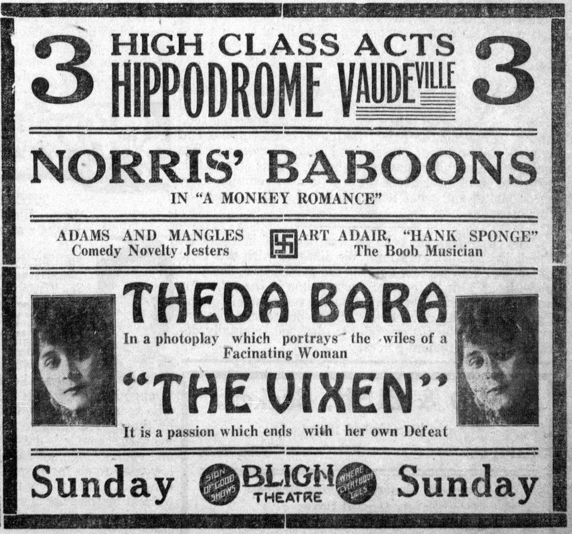 The Vixen is a 1916 American silent drama film directed by J. Gordon Edwards and starring Theda Bara. This is a 1917 newspaper advert for the film.